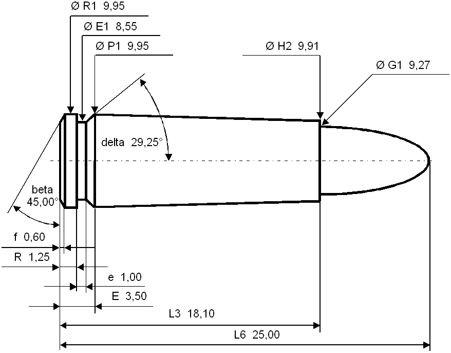 9x18mm Makorov maximum C.I.P. cartridge dimensions. All sizes in millimeters (mm).